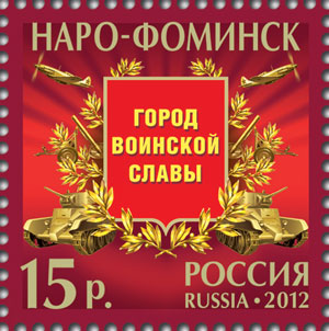 Cities of Military Glory 3